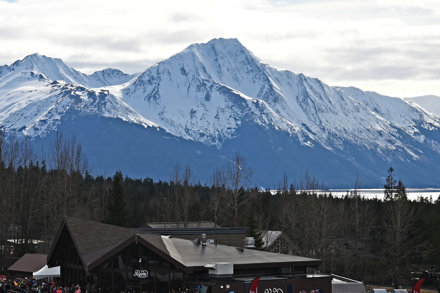 Mount Alpenglow from Alyeska Ski Resort. "Photo used under Creative Commons license courtesy Paxson Woelber, The Alaska Landmine"